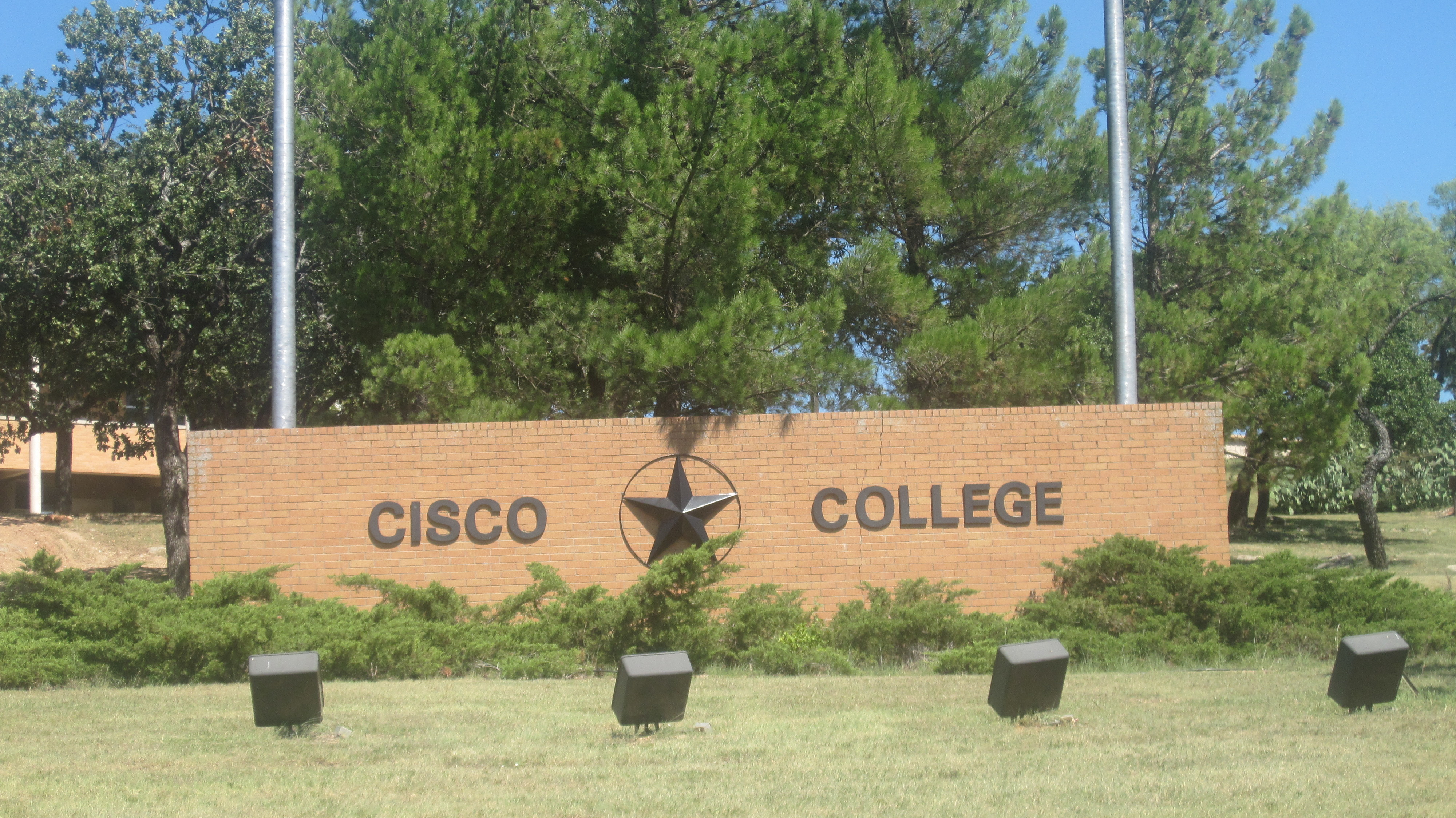 I took photo with Canon camera in Cisco, TX.